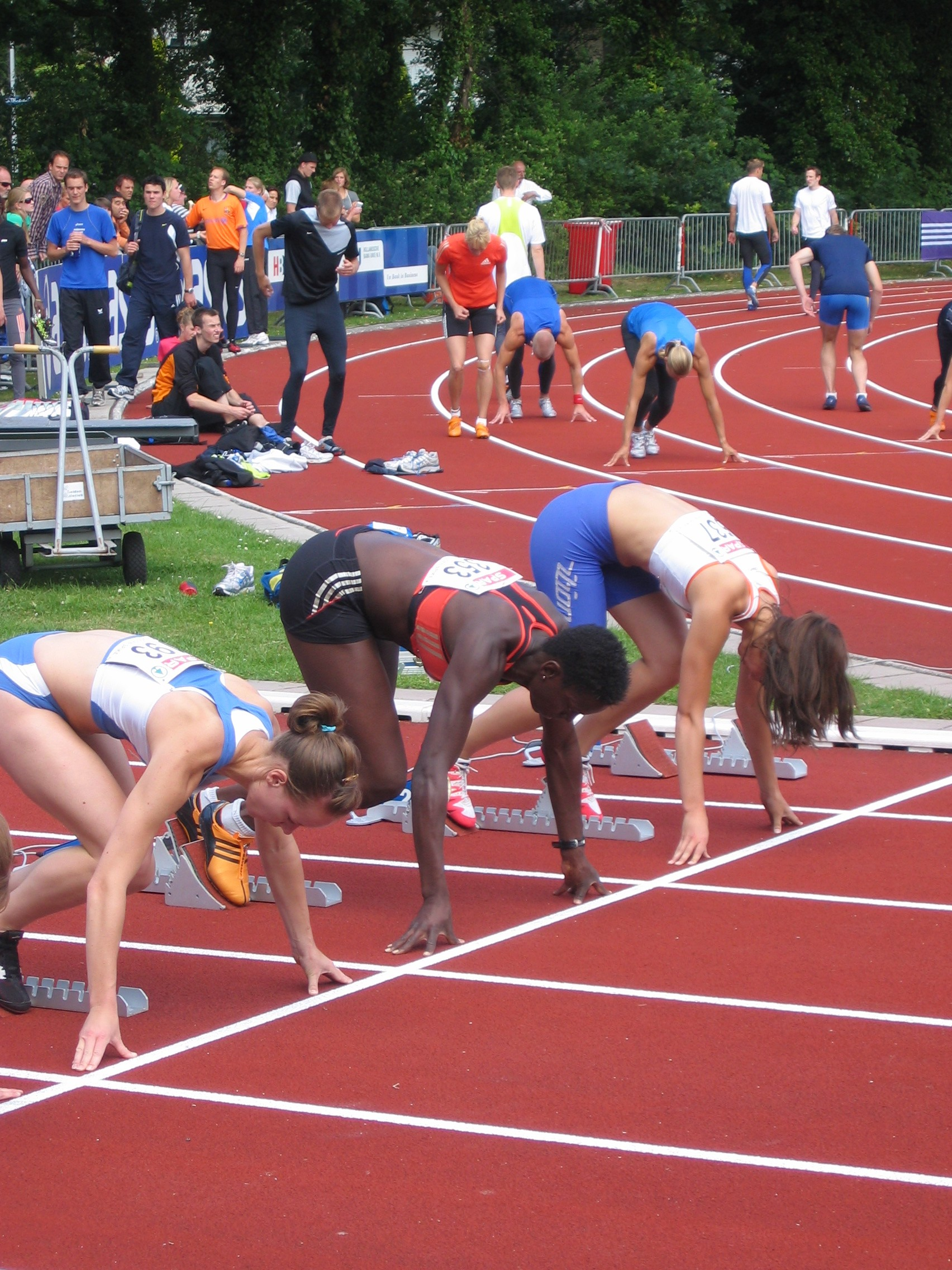 Judith Vis at the Gouden Spike Meeting '08 in Leiden, The Netherlands